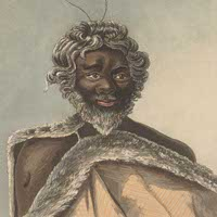 An illustration depicting a Wiradjuri warrior, thought to be Windradyne (c1800 - 1829). Copyright is thought to have expired.